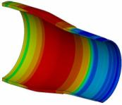 sbenzie